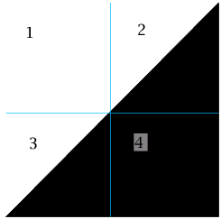 2 triangles, example to show how fractal compresion works